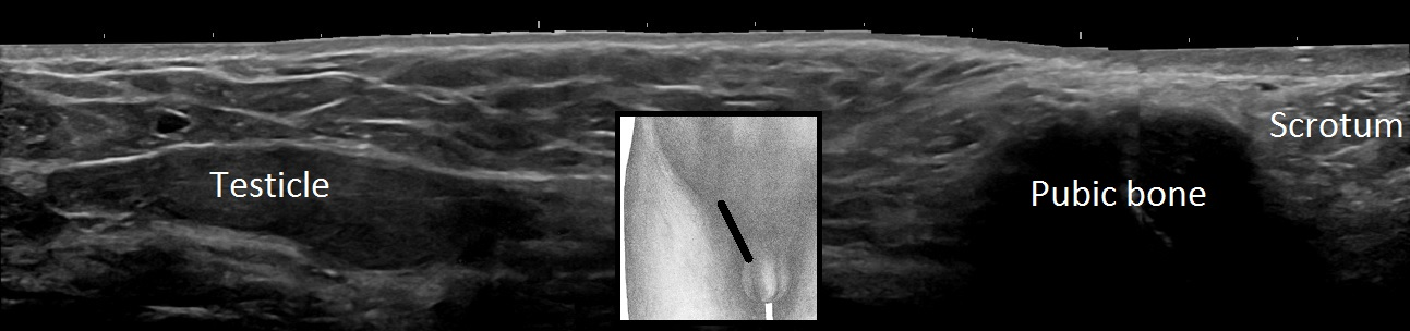 Scrotal ultrasonography of a 28 year old male with pain upon palpation in the right inguinal region. It shows right-sided cryptorchidism, with the testicle being located under subcutaneous fat, approximately 7 cm rostral to the public bone.